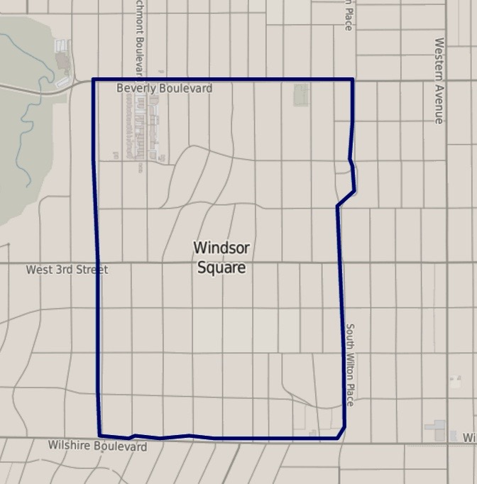 Map of Windsor Square, California, as presented in the Mapping L.A. site of the Los Angeles Times Other information CC-by-SA notice at bottom right corner of the map on the source page.